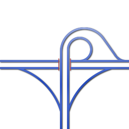 Trumpet Road Interchange